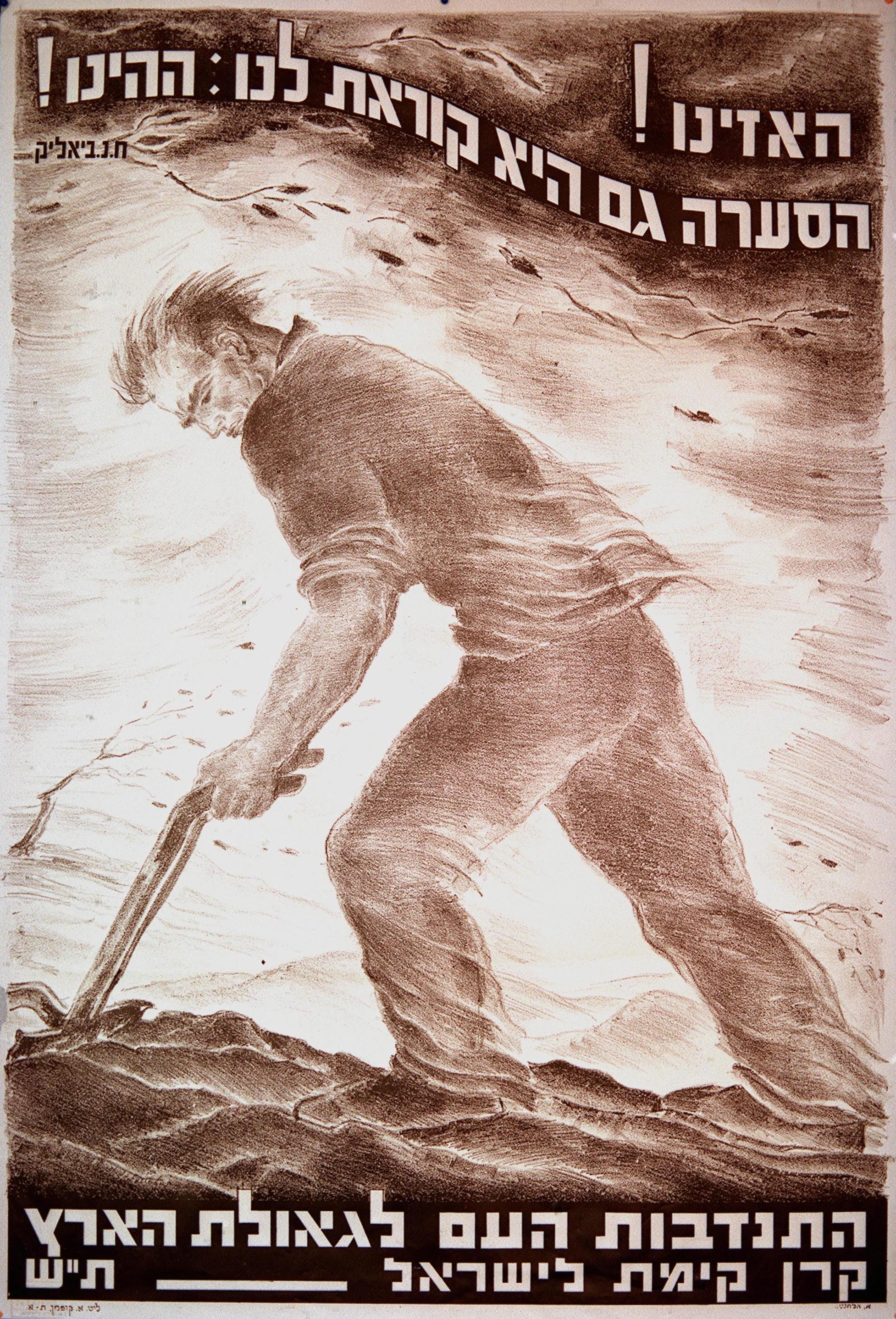 1940'S JEWISH NATIONAL FUND POSTER CALLING ON THE NATION TO VOLUNTEER AND WORK TO REDEEM THE LAND. כרזה משנות ה-40 של הקרן הקימת לישראל הקוראת להתנדבות העם לגאולת הארץ.